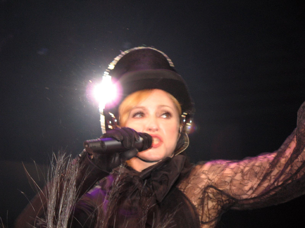 Close up of Madonna. Confessions Tour